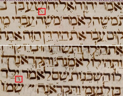 Dos demostraciones del niqud kubutz hallados en dos volúmenes de la Biblia de Lisboa, Biblioteca British Library